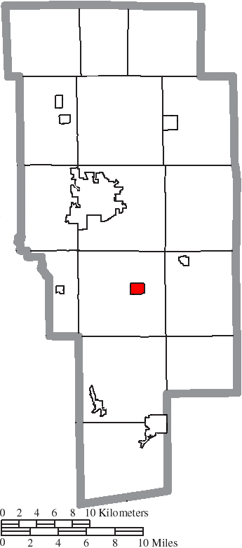 Map of the municipal and township boundaries of Ashland County, Ohio, United States, as of the 2000 census, with the location of the village of Hayesville highlighted. Township borders are shown only in unincorporated areas in order to differentiate incorporated and unincorporated areas more clearly.